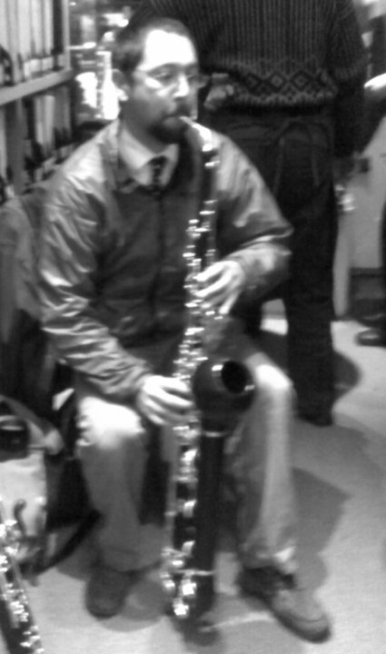 lupohone